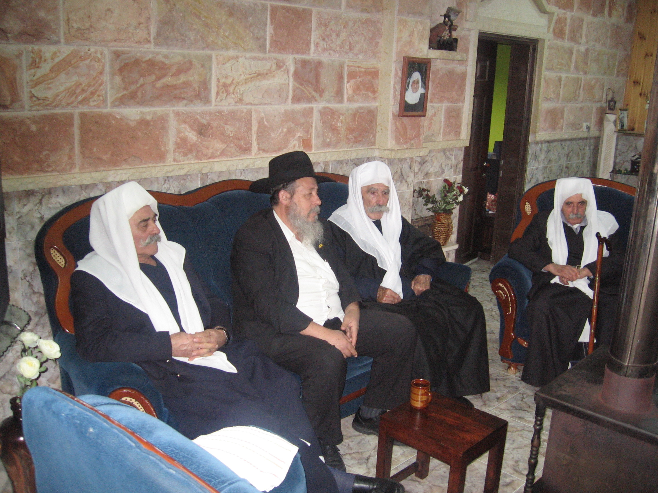 Rabbi Boaz Kali speaking with Druze leaders about the Noahide Laws in the village of Beit Jann.